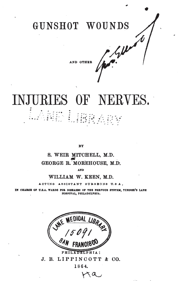 Title page of 1864 book "Gunshot Wounds, and other Injuries of nerves" by Mitchell, Morehouse and Keen